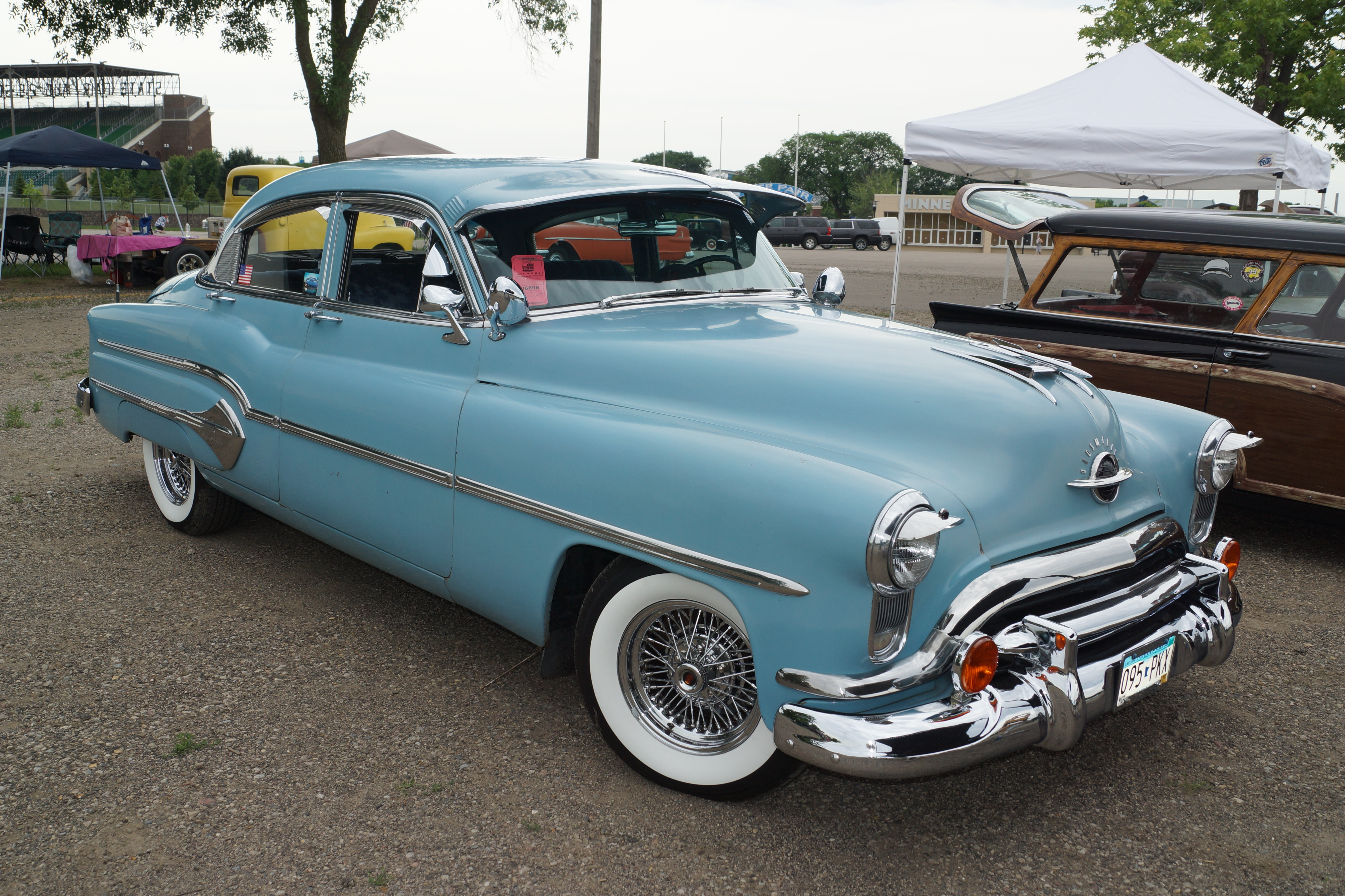 MSRA “BACK TO THE 50′s” 43nd Annual Car Show June 17-19, 2016 State Fairgrounds St. Paul Minnesota Click here for more car pictures at my Flickr site.